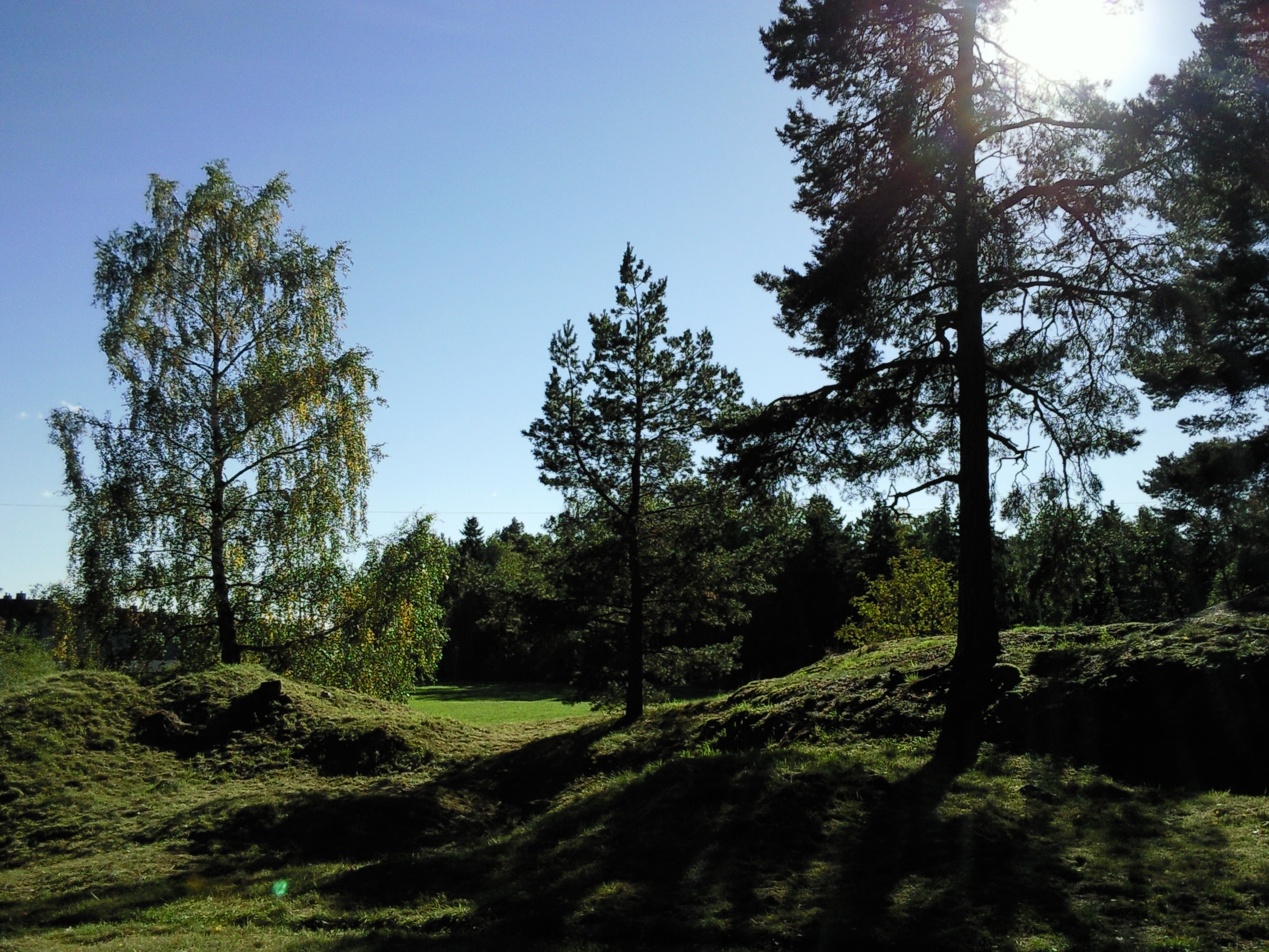 Iron Age Graves on Ekerö